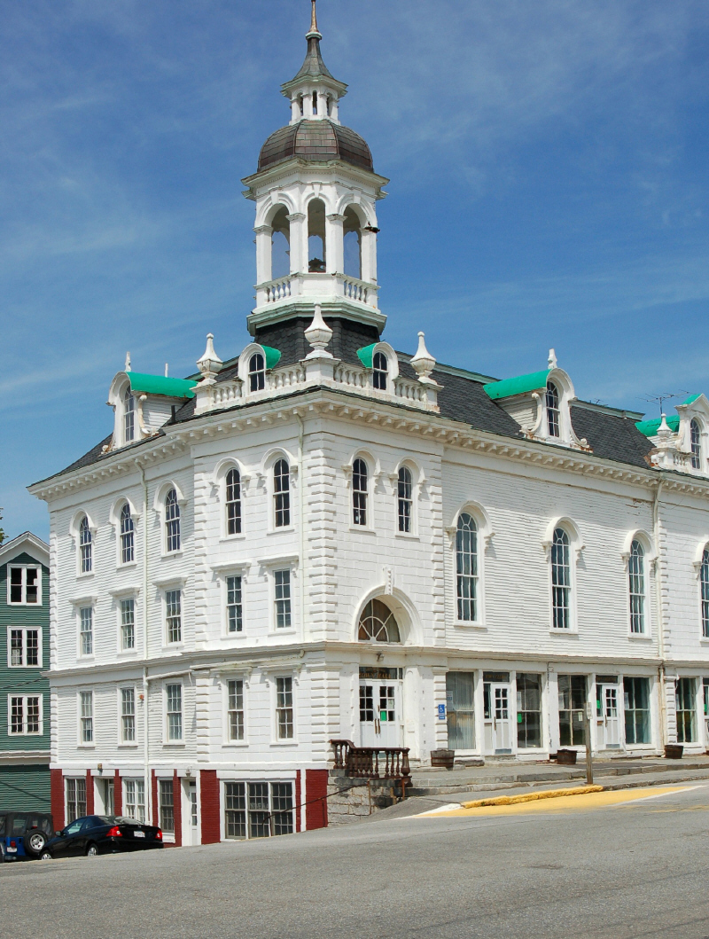 Picture taken by Richard B. Johnson